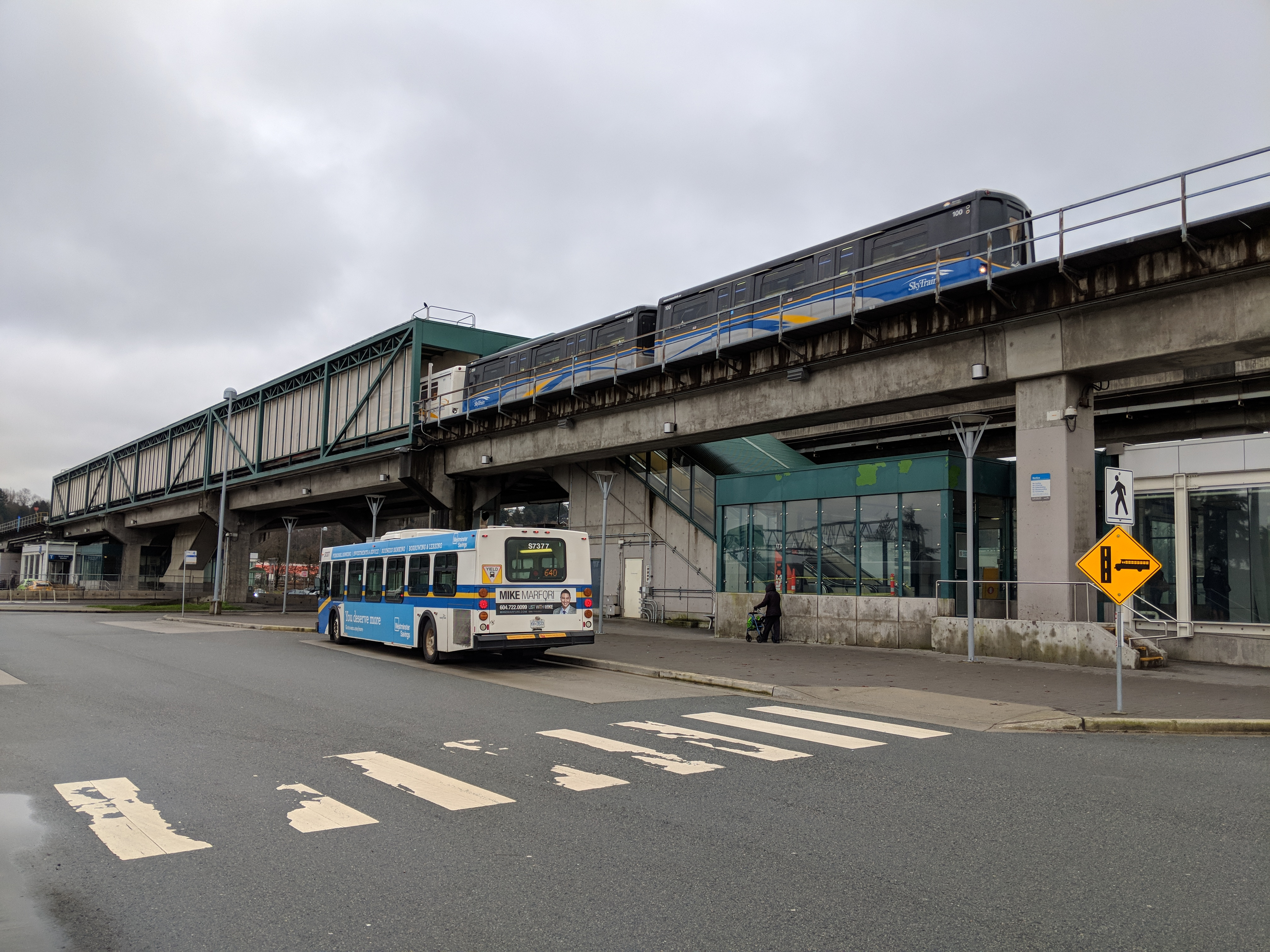 Scott Road SkyTrain station viewed from the northwest in February 2018.